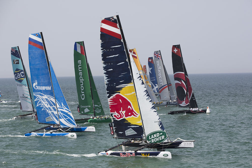 Land Rover Oman has been at the heart of world-class sailing action in the waters off Muscat, as the premium car brand hosted, as global Series Main Partner, the award-winning Extreme Sailing Series™. Discover more here: bit.ly/OMHVE9